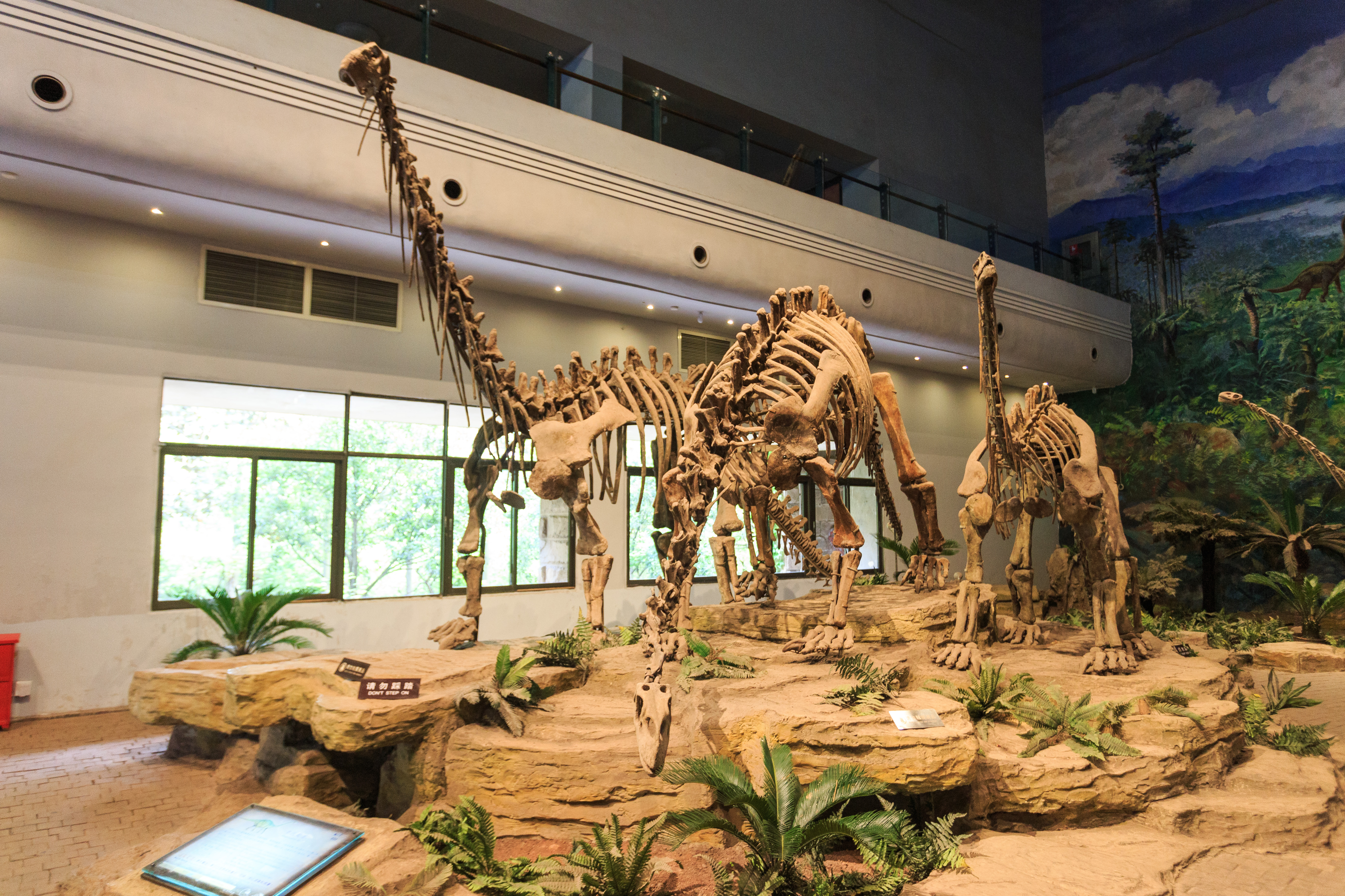 Shunosaurus lii Symtemtic position: Cetiosauridae, Sauropodomorpha, Saurischia. Locality: Dashanpu, Zigong, Sichuan, China. Age: Middle Jurassic (about 160 million years ago).